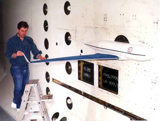 Donald Keller with Gulfstream V model during winglet flutter investigation.